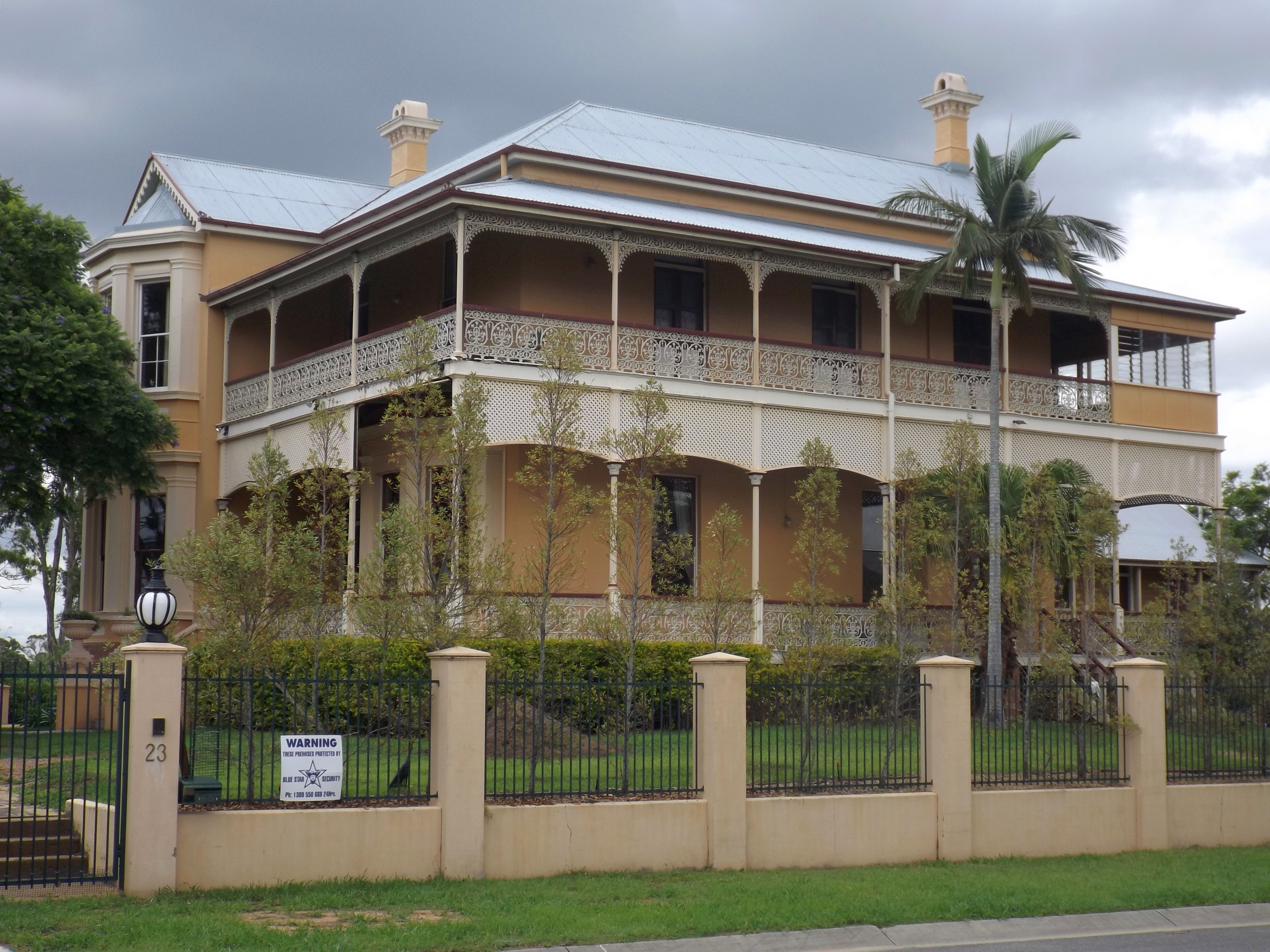 Photo of Rhyndarra in Yeronga, Brisbane, Queensland, Australia.